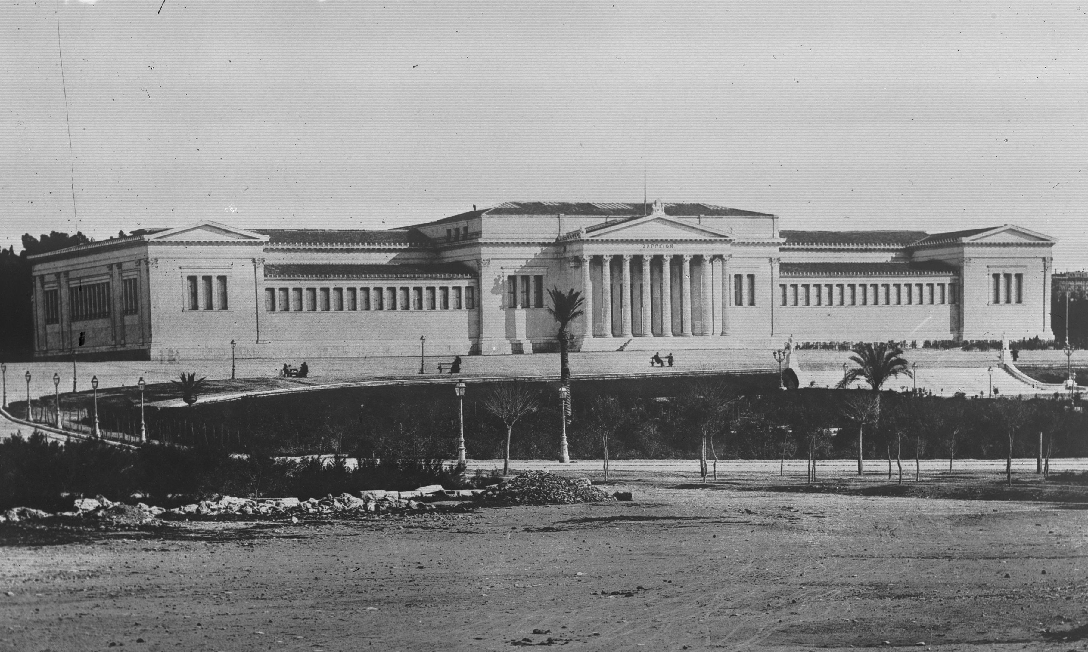 The Zappeion in Athens in 1916